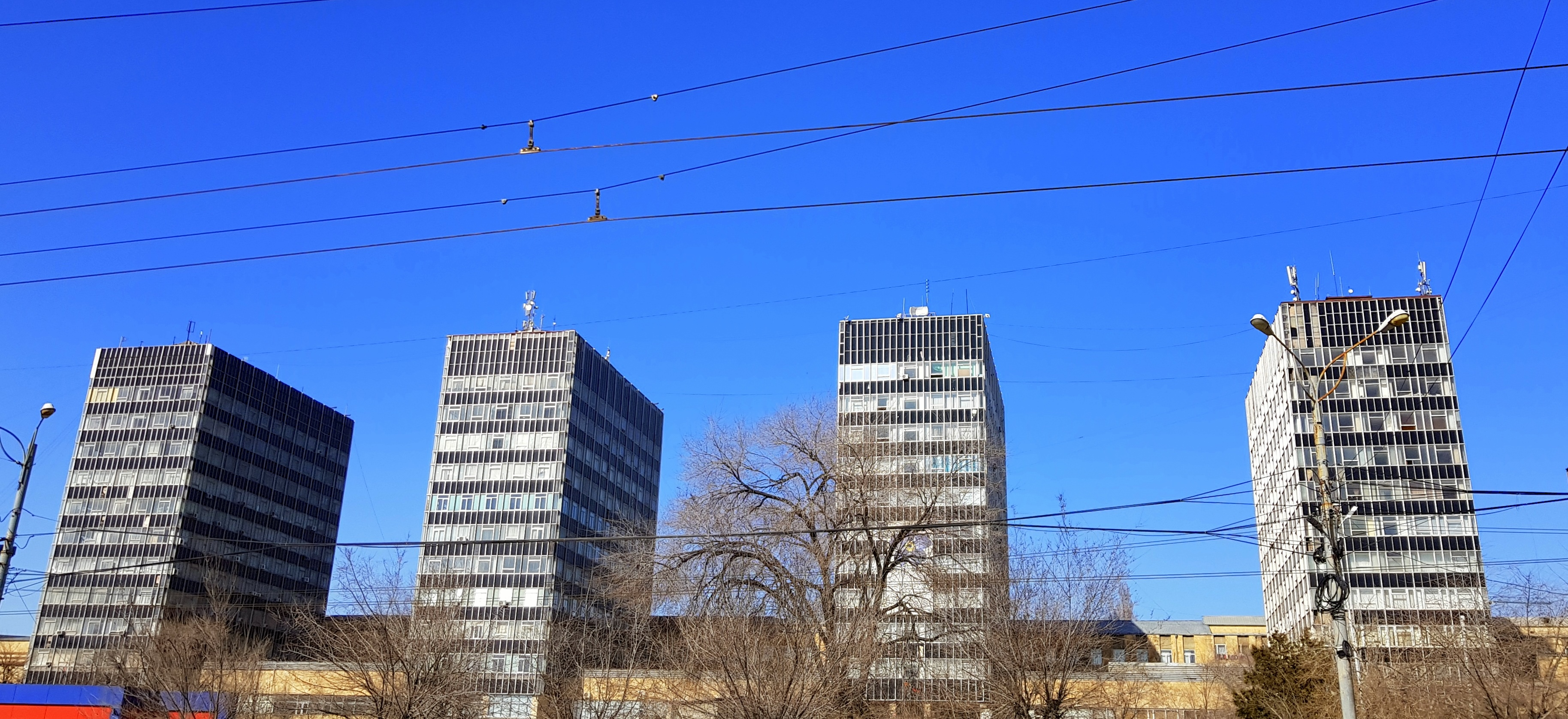 Buildings on Komitas avenue